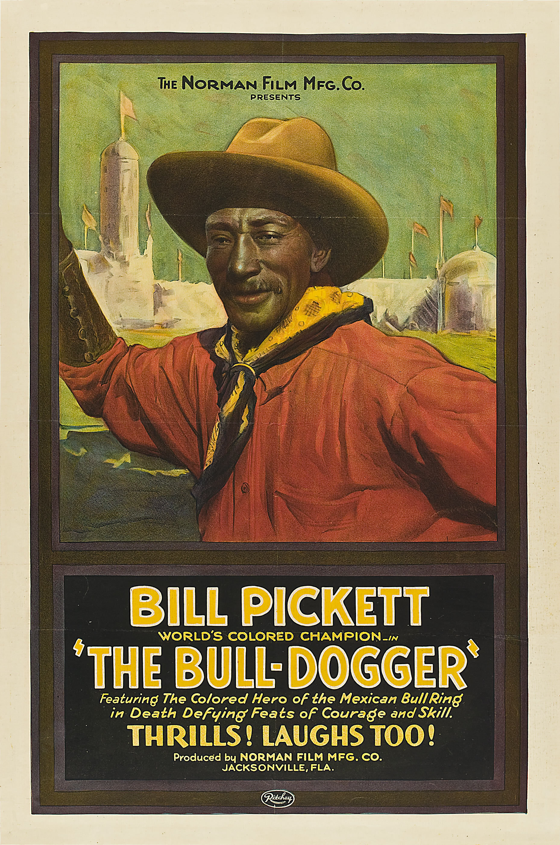 Photo image by Anthony Hodge, Co-Chair of Norman Studios, for the film The Bull-Dogger (1922) with Bill Pickett.